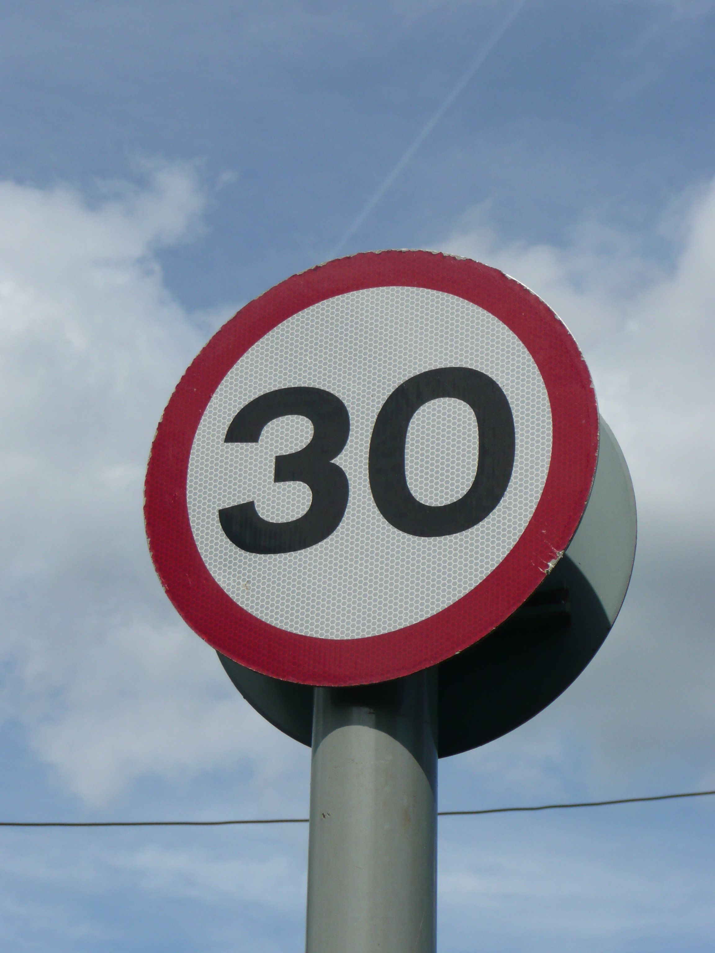 A 30 mph (48 km/h) speed limit reminder (repeater) road sign on a road within the United Kingdom. Usually only used when there is insufficient street lighting for a road to legally have an automatic 30 mph speed limit, unless signed otherwise. This example was photographed in Liss, Hampshire, England.